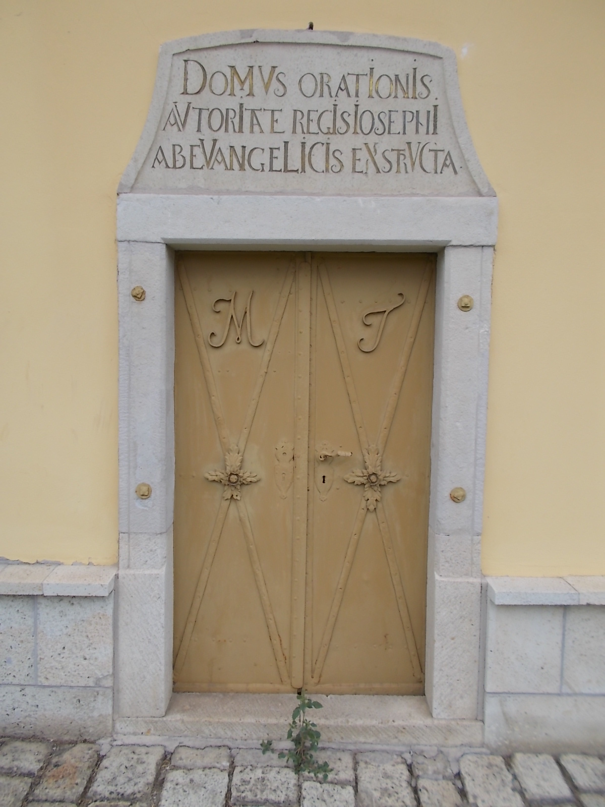 Lutheran Great Church, Baroque origin, 1784-1786. Reconstructed in eclectic neo-baroque style between 1850-1860, 1885-1886 and 1936. - Luther Square, Nyíregyháza, Szabolcs-Szatmár-Bereg County, Hungary.